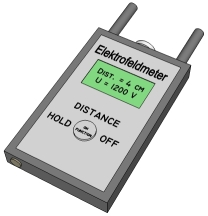 Drawing of an electric field meter